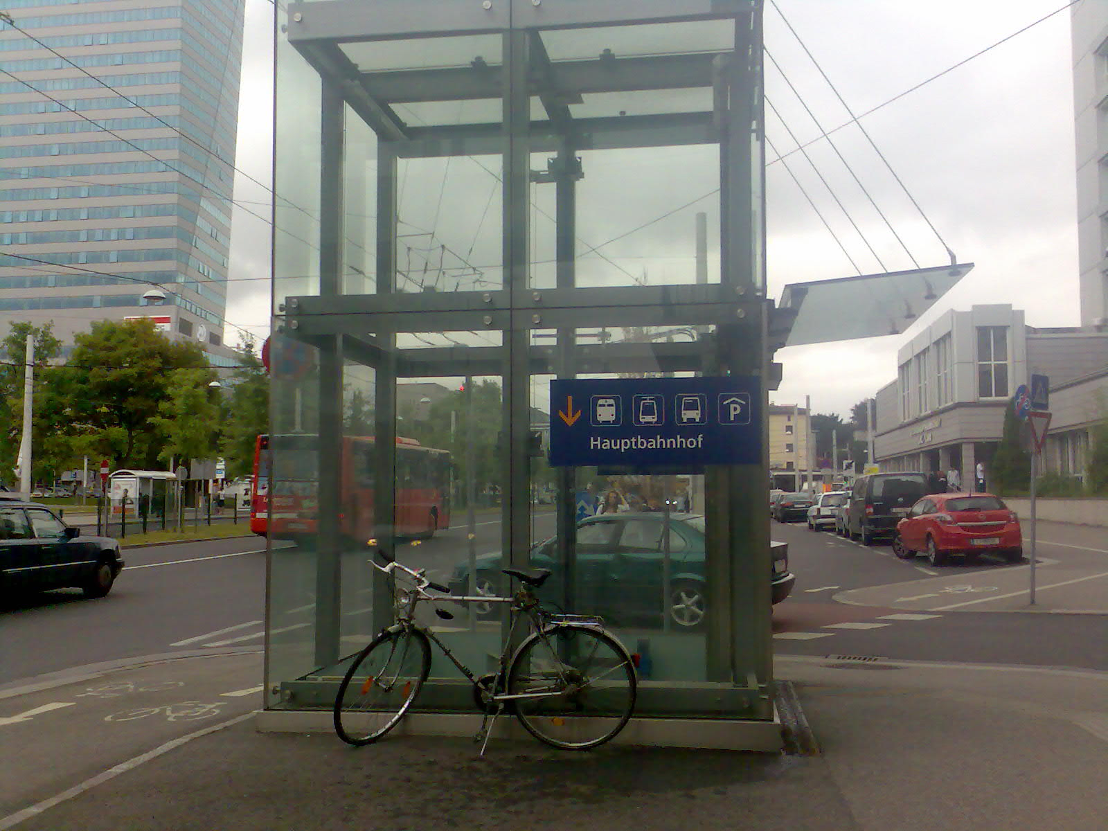 Linz Hauptbahnhof - The lift to the Central Railway Station and trams